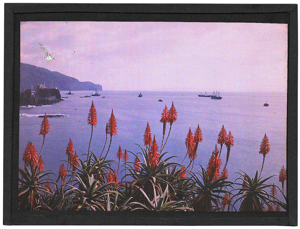 Sarah Angelina Acland, Red Hot Pokers and the Bay of Funchal by Sarah Angelina Acland, Autochrome, circa 1910